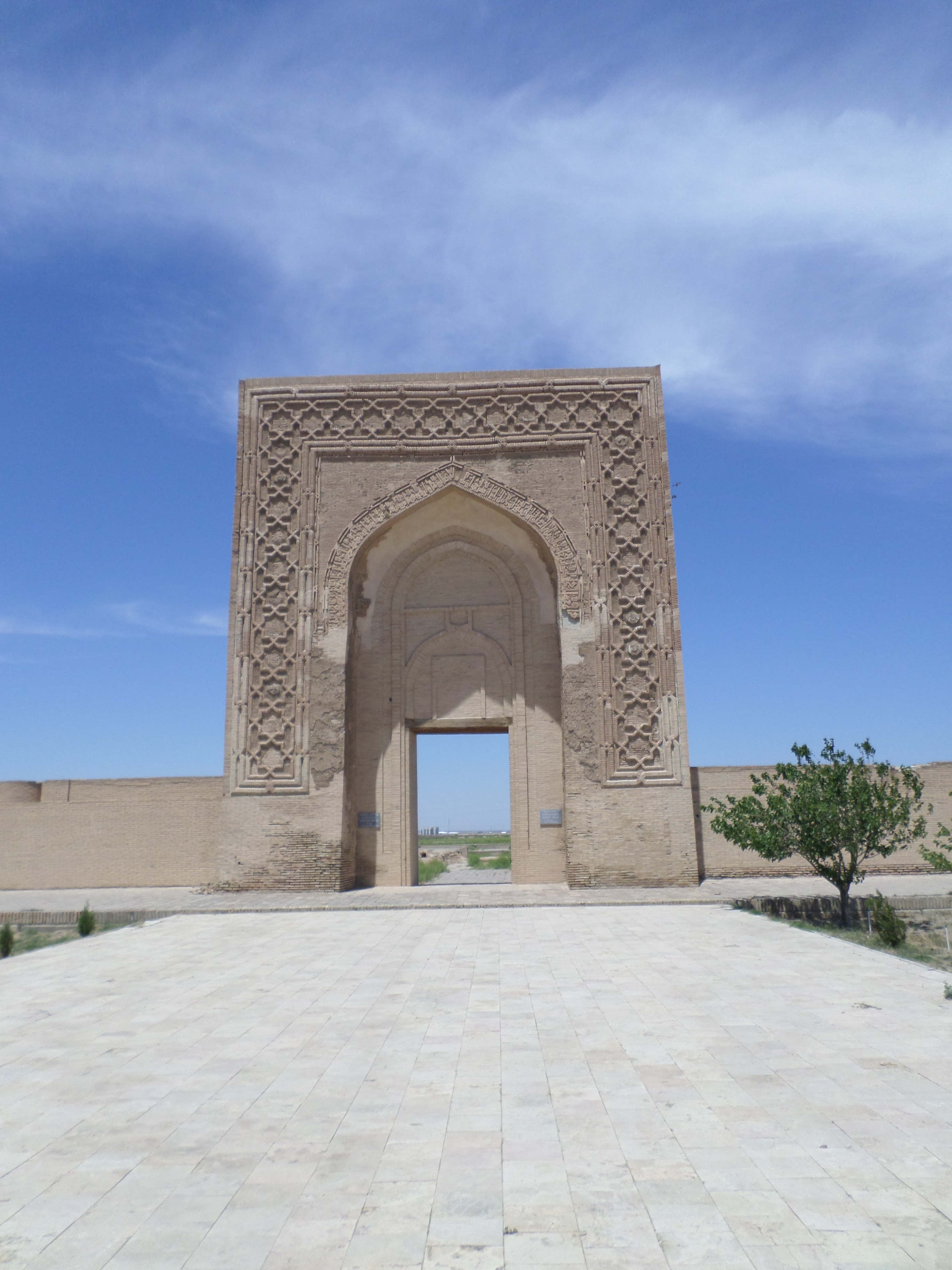 Rabat Malik